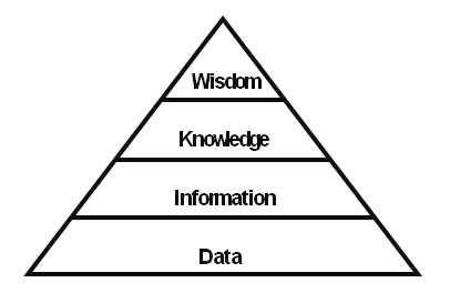 The DIKW (data, information, knowledge, wisdom) Hierarchy as represented as a pyramid